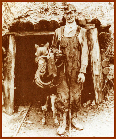 Virginia miner with a working Shetland pony coming out of a mine, 1930.